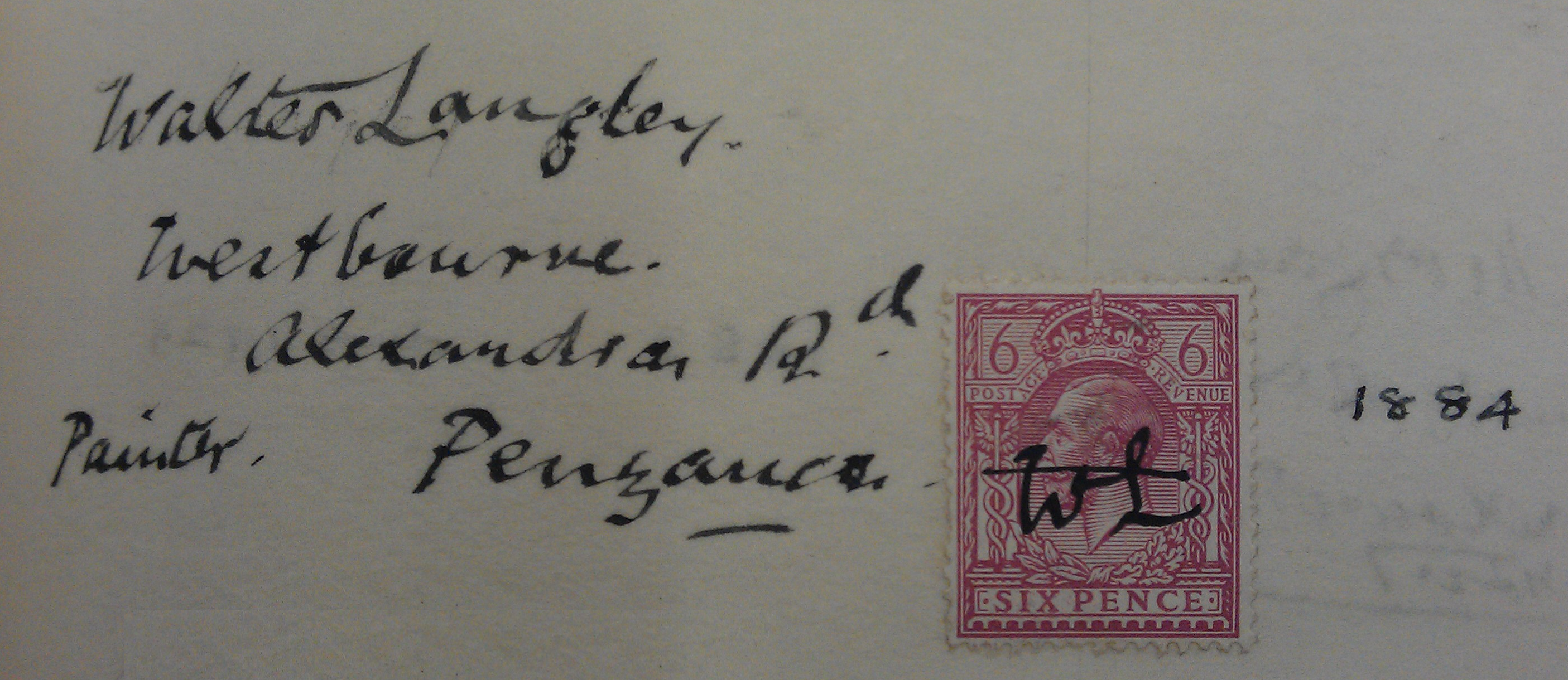 Walter Langley's entry in the Royal Birmingham Society of Artists members' register; in his own hand. Reads: "Walter Langley, Westbourne, Alexandra Rd, Penzance, painter". Dated 1884 and with an initialled postage stamp.